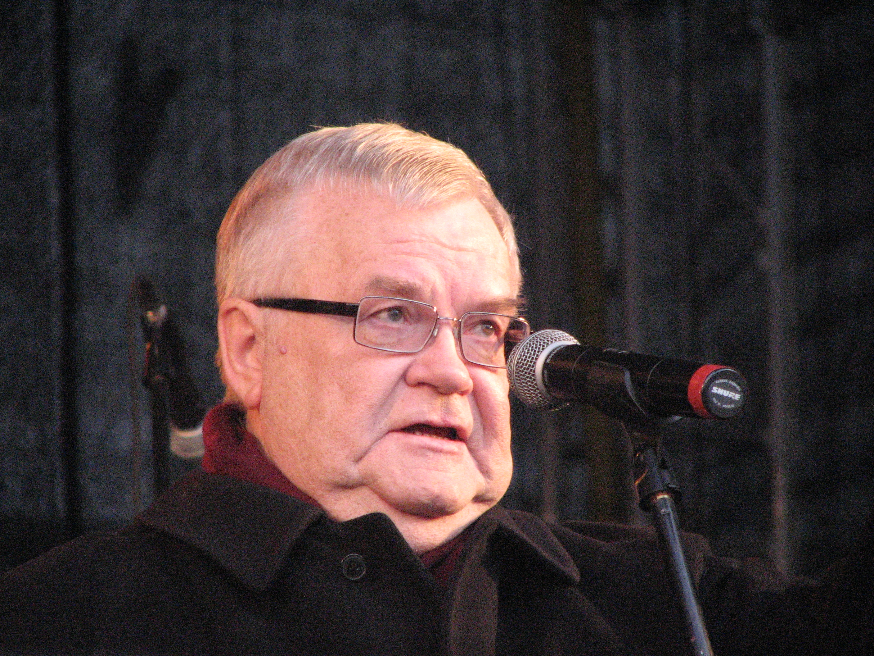 Major of Tallinn Edgar Savisaar on the Ist of advent 2012